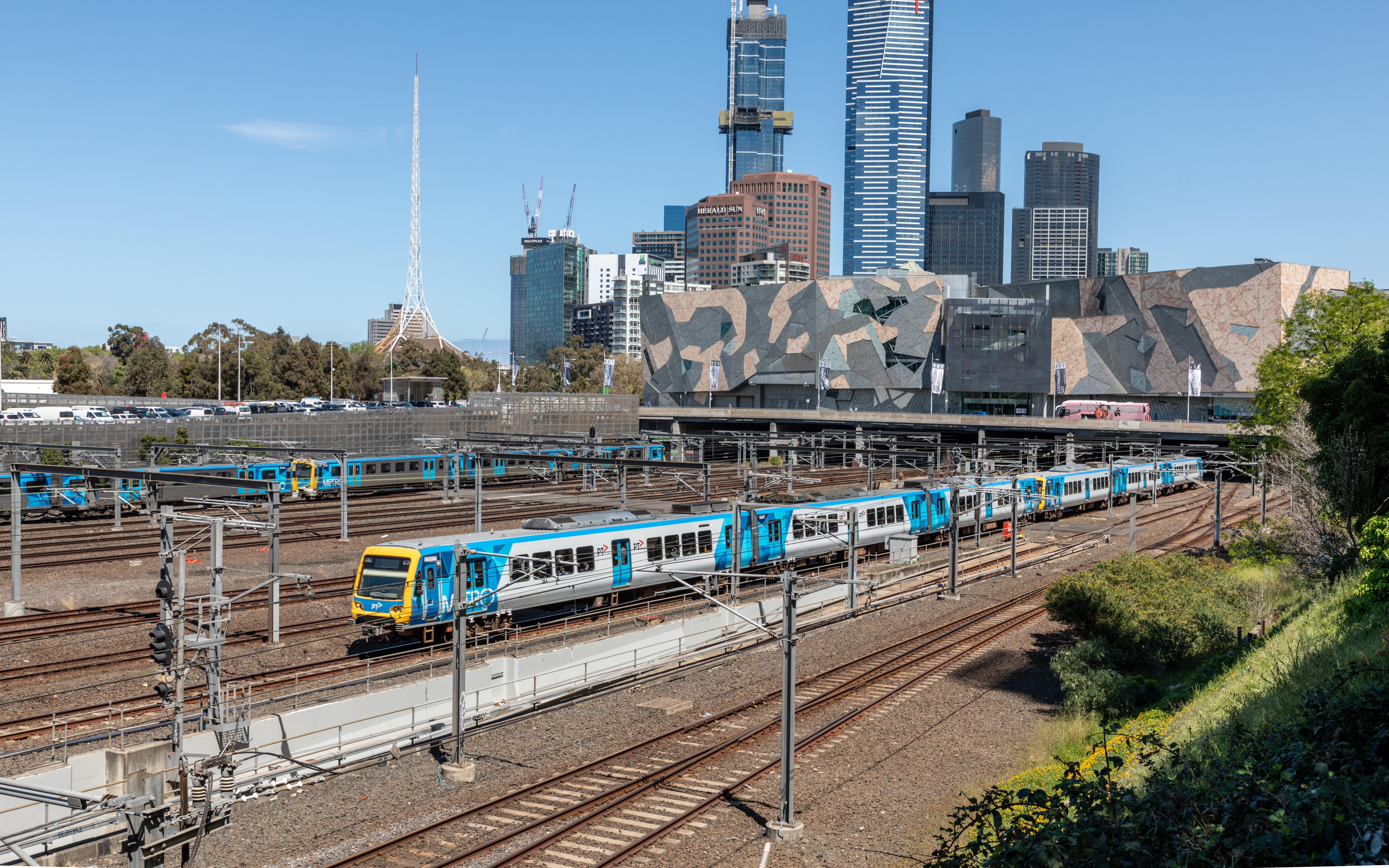 Flinders Street Station (Tracks in east), Melbourne, Victoria, Australia